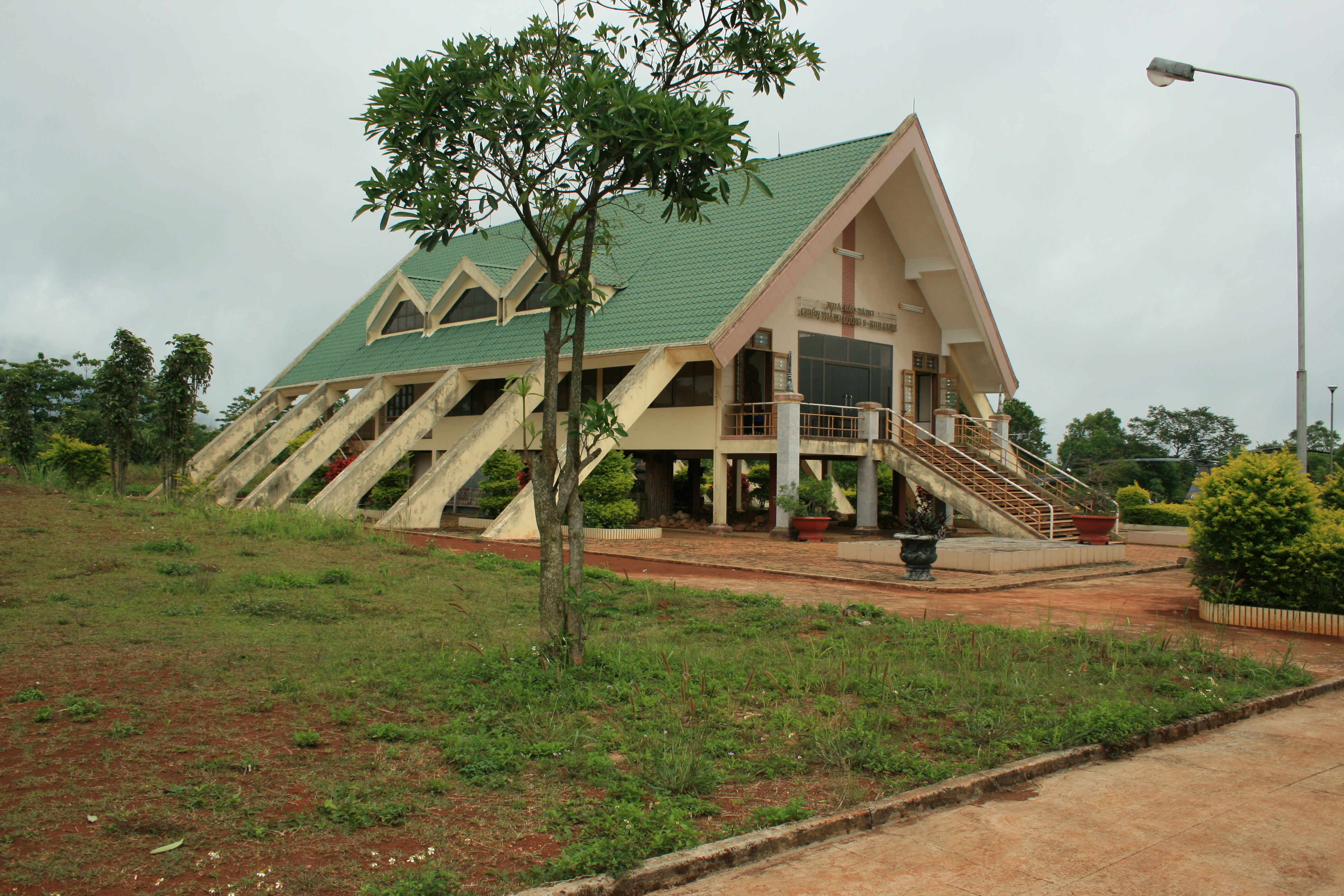 The Museum at Khe Sanh combat base